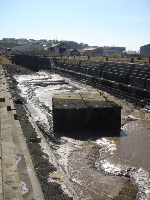 Disused Dry Dock This dock is reputedy where the royal yacht Victoria and Albert was built